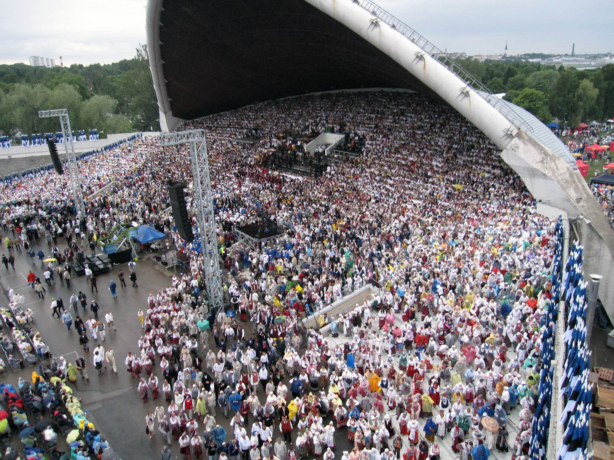 Tallinn song and dance festival 2009